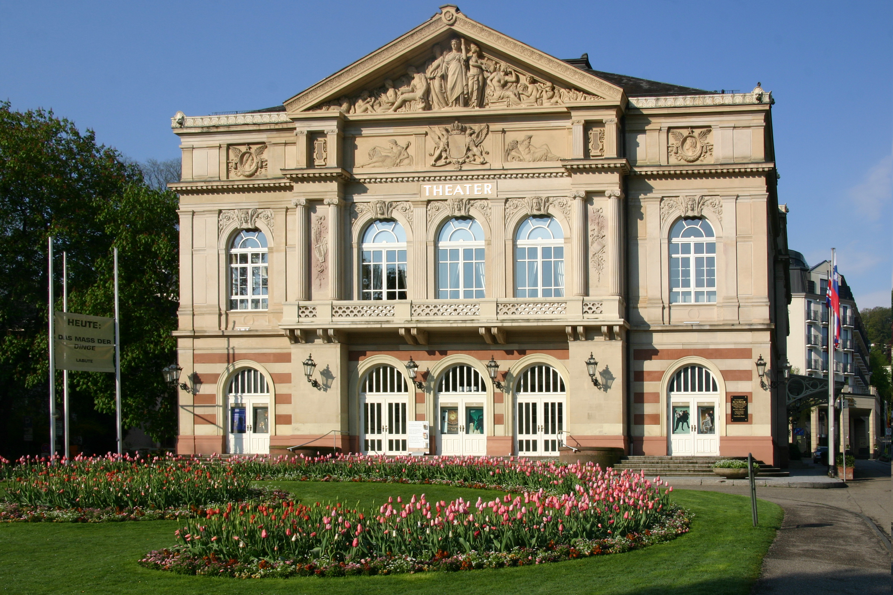 Municipal theatre Baden-Baden, Germany.